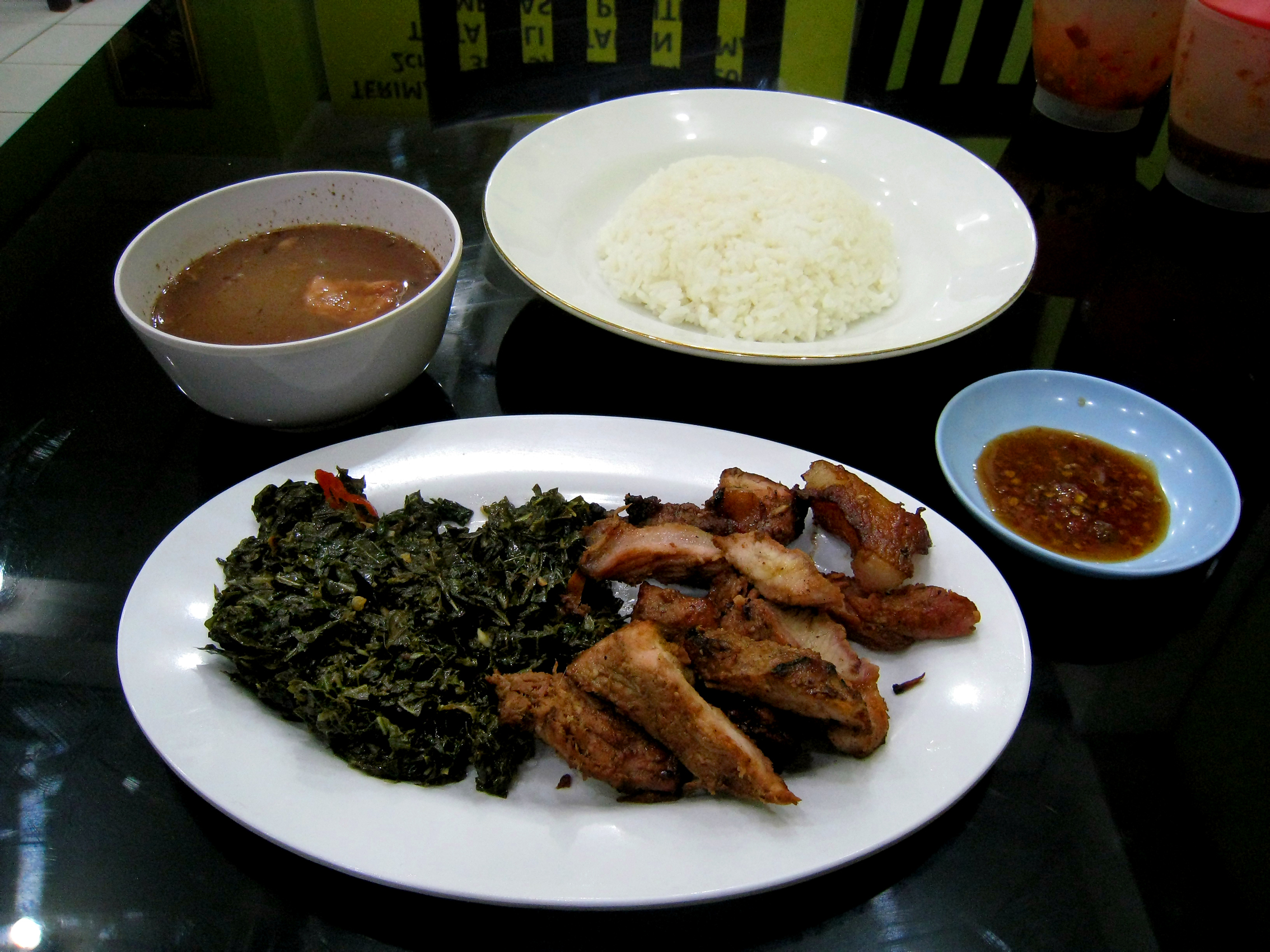 Se'i babi, smoked pork, served with pork soup, sambal chili sauce, and steamed rice. Specialty of Kupang city, East Nusa Tenggara, Indonesia.